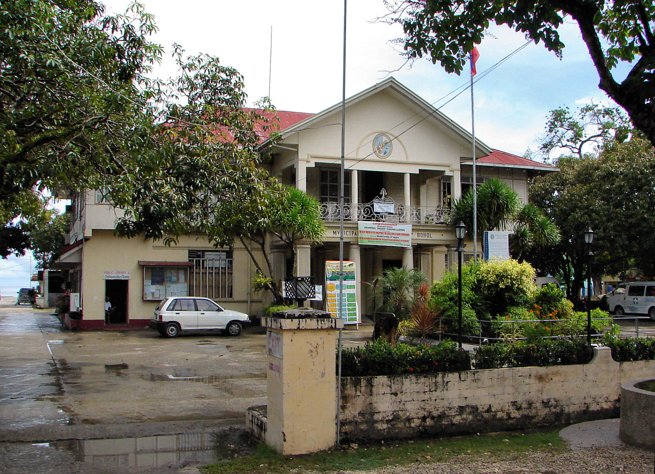 Municipal hall of Jagna, Bohol, the Philippines